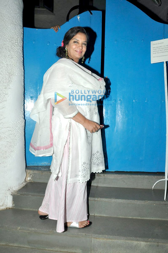 Azmi at the success bash of 'Neerja' at Olive